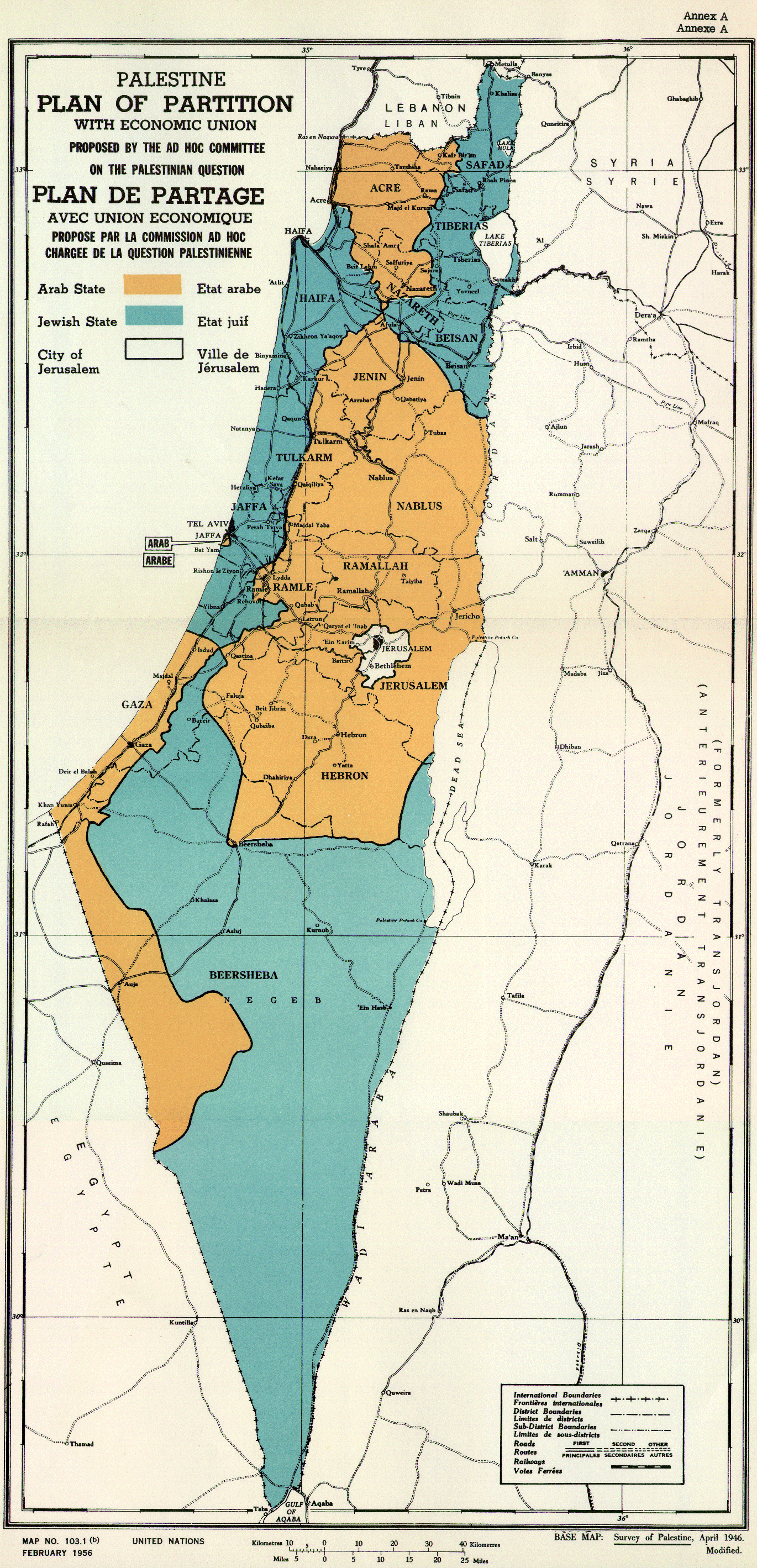 UNGA Resolution 181 (II). Future government of Palestine Annex A Plan of Partition with Economic Union (27 November 1947)